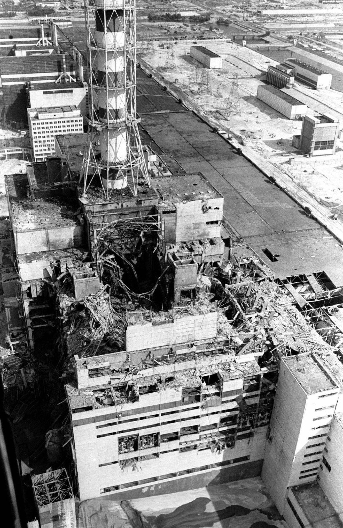 Historical collections of the Chernobyl accident from the Ukrainian Society for Friendship and Cultural Relations with Foreign Countries (USFCRFC). April 26, 1986, signified the boundary between life and death. A new reckoning of time began. This photo was taken from a helicopter on the day following the explosion. The destroyed Chernobyl reactor, one of four units operating at the site in Ukraine in 1986. No units operate today. (Chernobyl, Ukraine, 1986) Copyright: IAEA Imagebank Photo Credit: USFCRFC